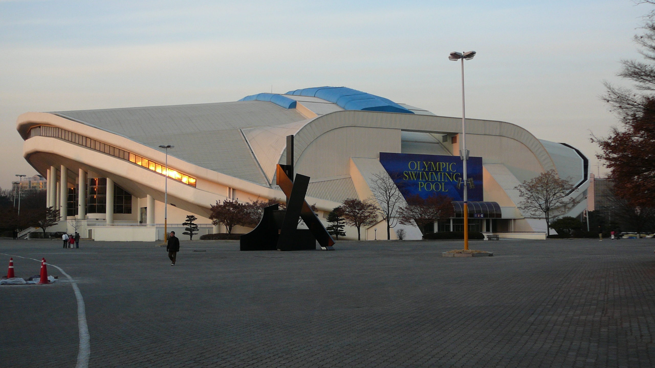 Olympic Swimming Pool in the Seoul Olympic Park.